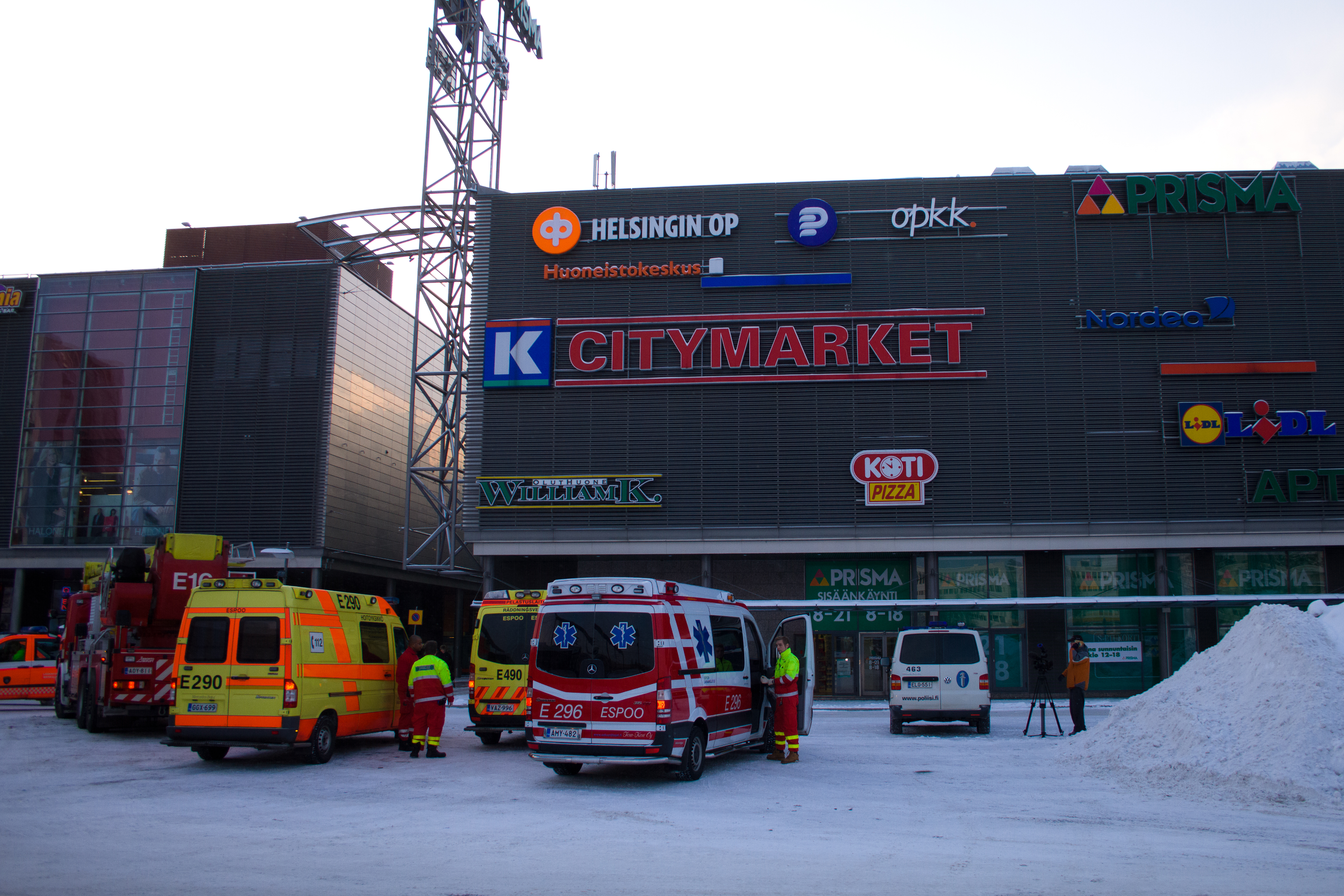 Ambulances and a police car outside the Sello shopping mall after the mall shooting, in Espoo, Finland.